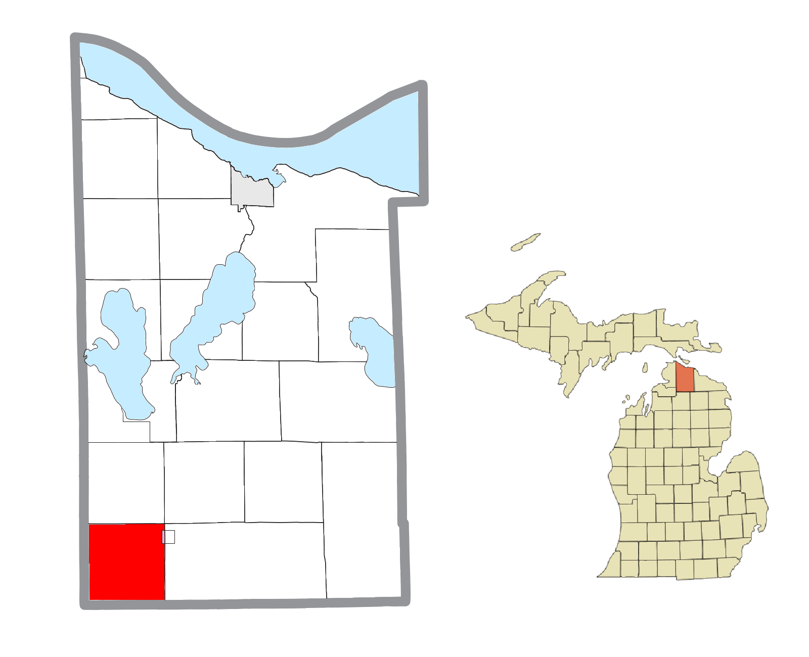 Wilmot Township, MI